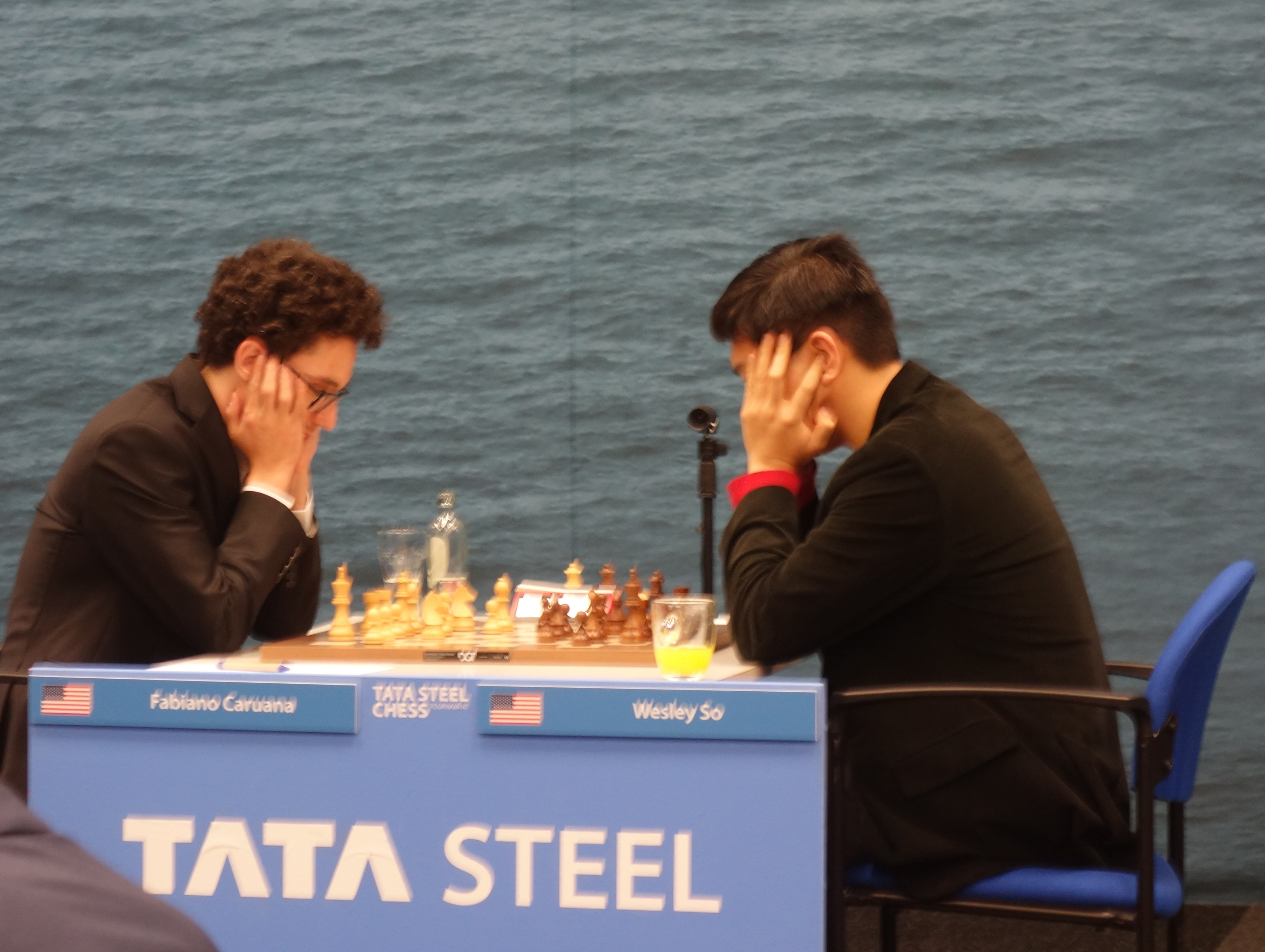 Fabiano Caruana vs Wesley So, Tata Steel chess tournament 2020